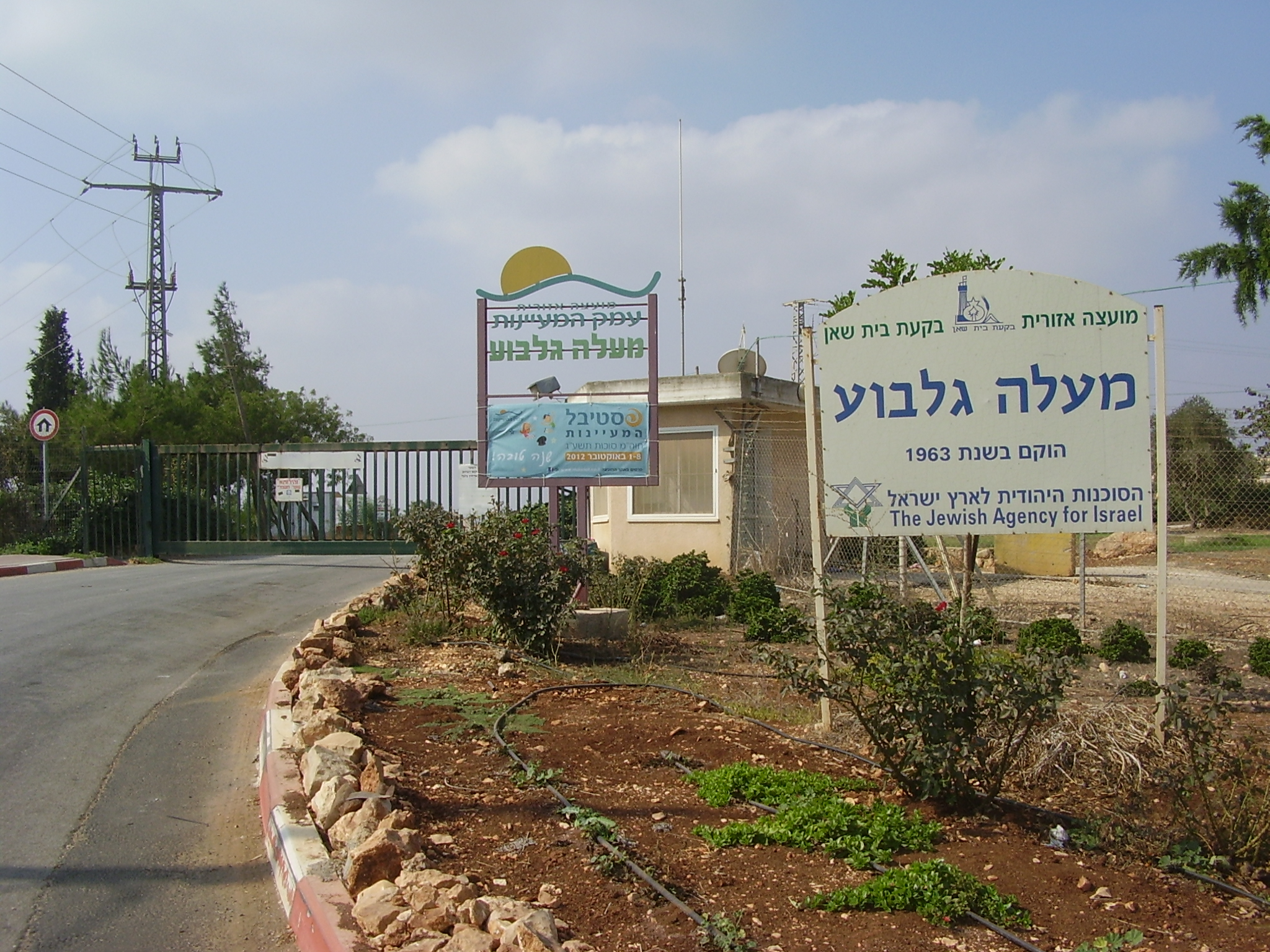 entrance to kibbutz ma'ale gilboa הכניסה לקיבוץ מעלה גלבוע